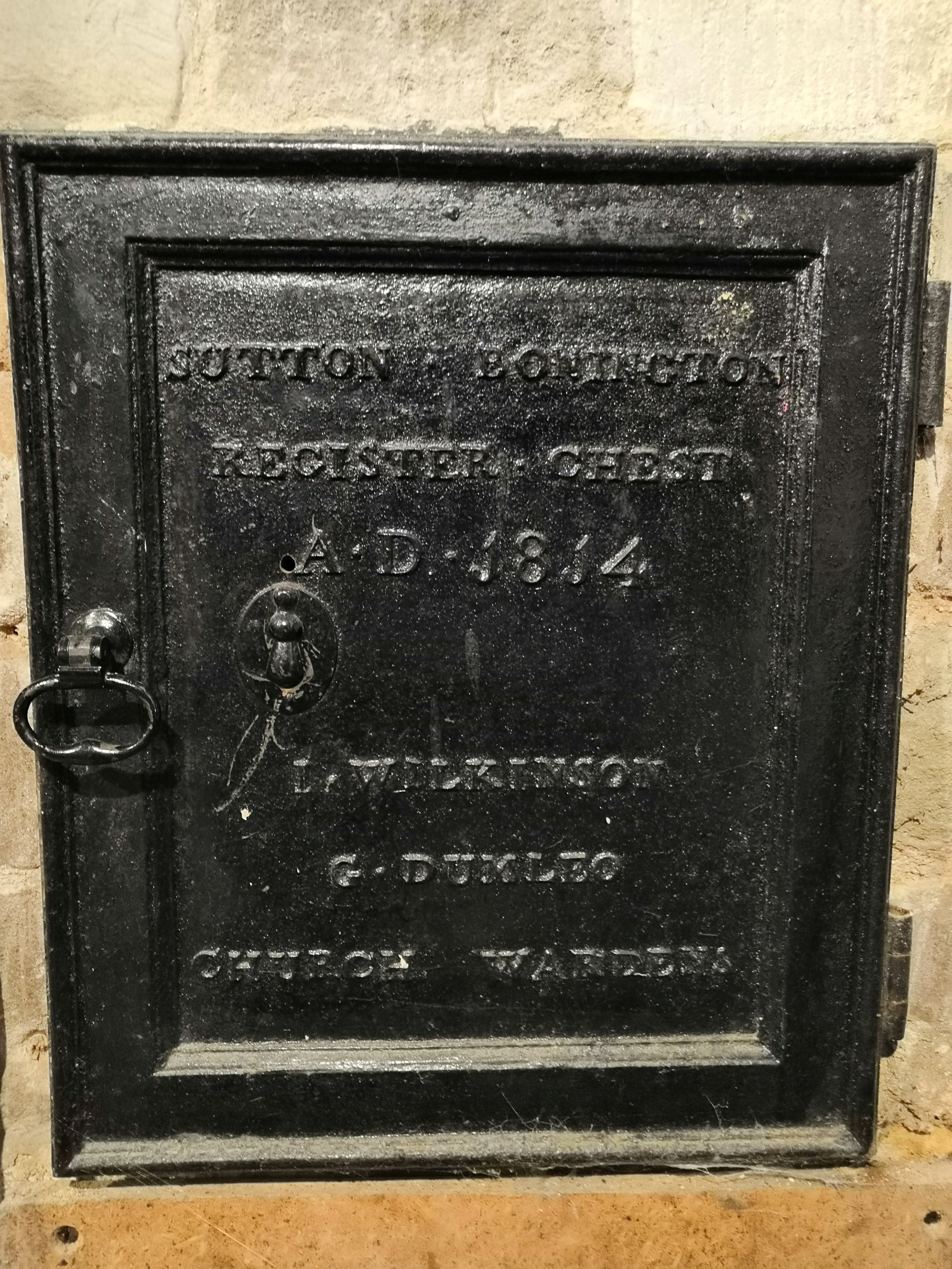 Register safe for the parish of Sutton Bonington Nottinghamshire dated 1814, situated in St Michael's Church